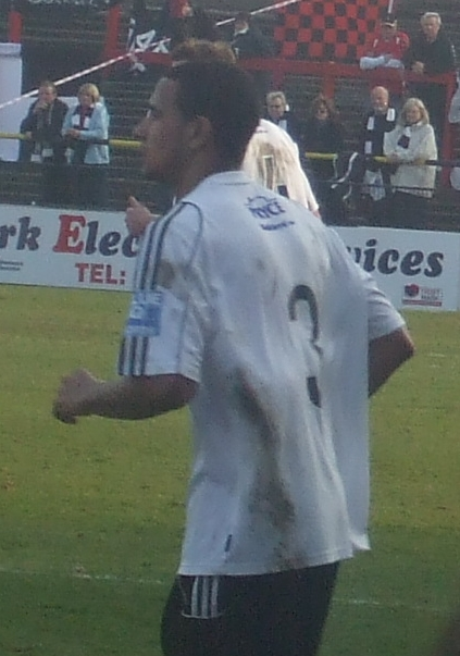 James Meredith playing for AFC Telford United against York City at Bootham Crescent, York on 21 March 2009